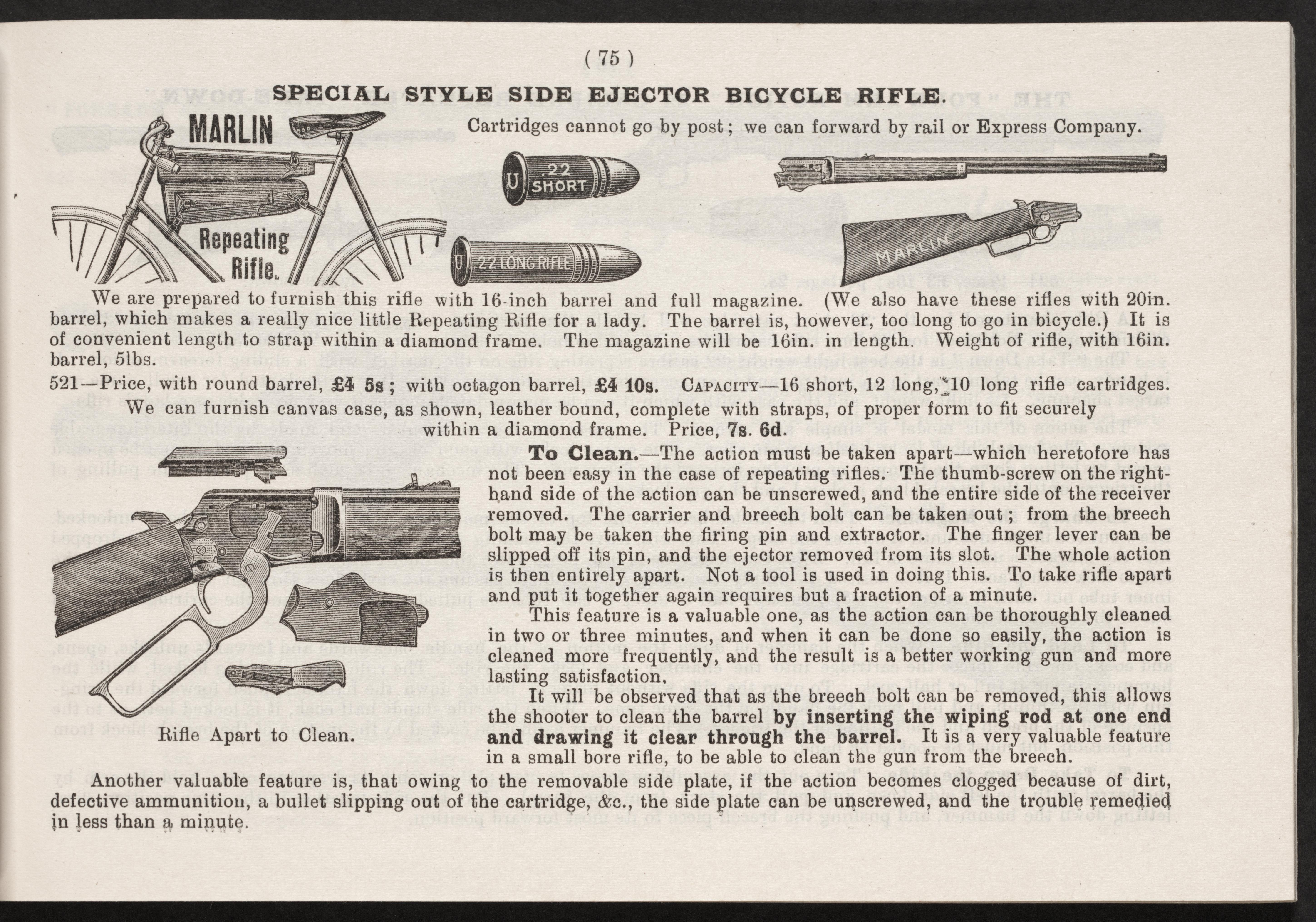 An advertisement for a Marlin repeating rifle with an illustration of one attached to a bicycle. Two sizes of bullet are shown, and there is an illustration of the rifle taken apart for cleaning. The text gives cleaning instructions. Quantity: 1 colour art print(s). Physical Description: Engraving on catalogue page, 120 x 188 mm. A & W McCarthy (Firm) :Special style side ejector bicycle rifle [1902]. [Ephemera of octavo size relating to guns, rifles, shooting and ammunition. 1880-1929].. Ref: Eph-A-GUN-1902-01-075. Alexander Turnbull Library, Wellington, New Zealand.